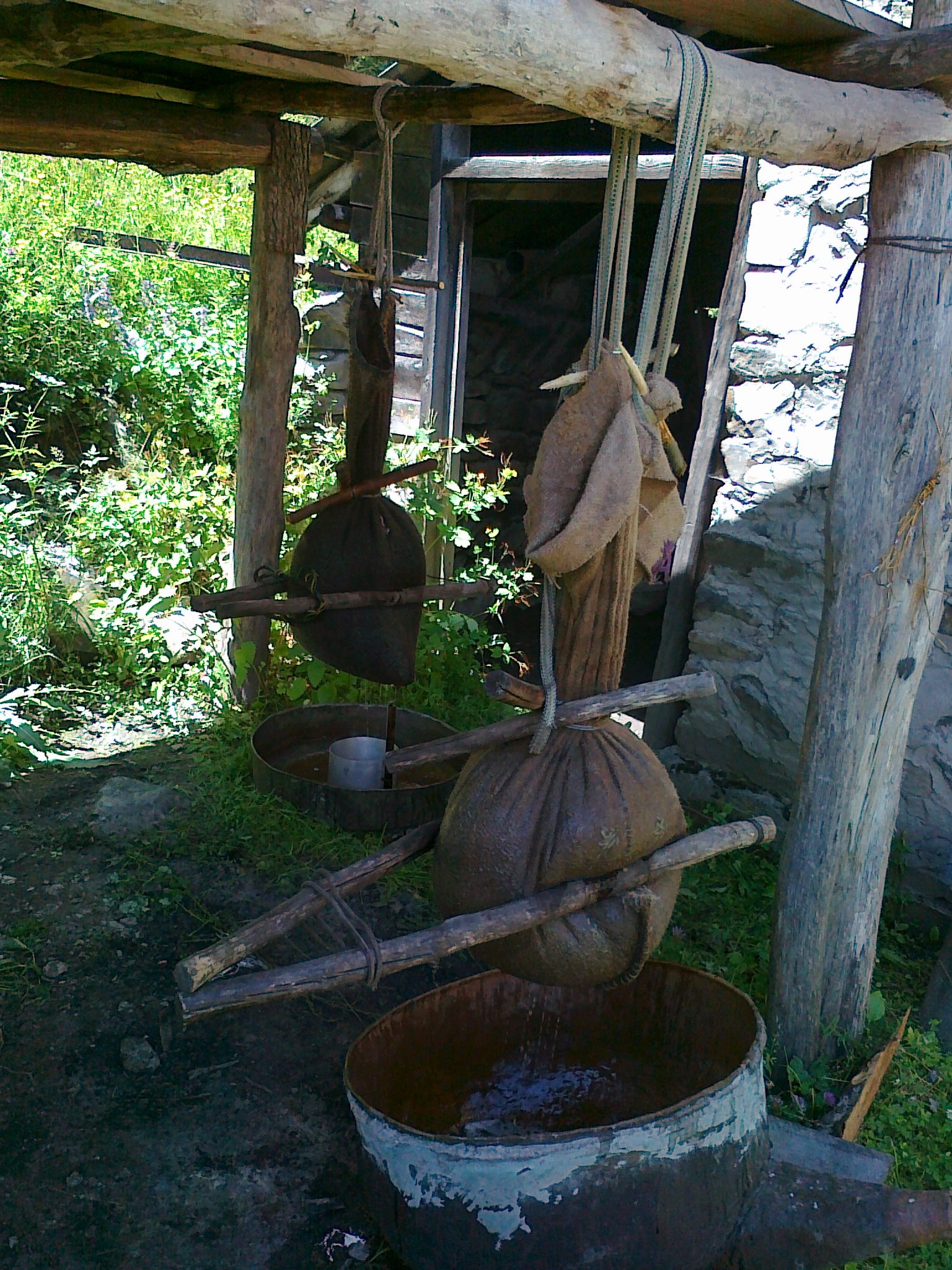 Beer making in Khevsureti